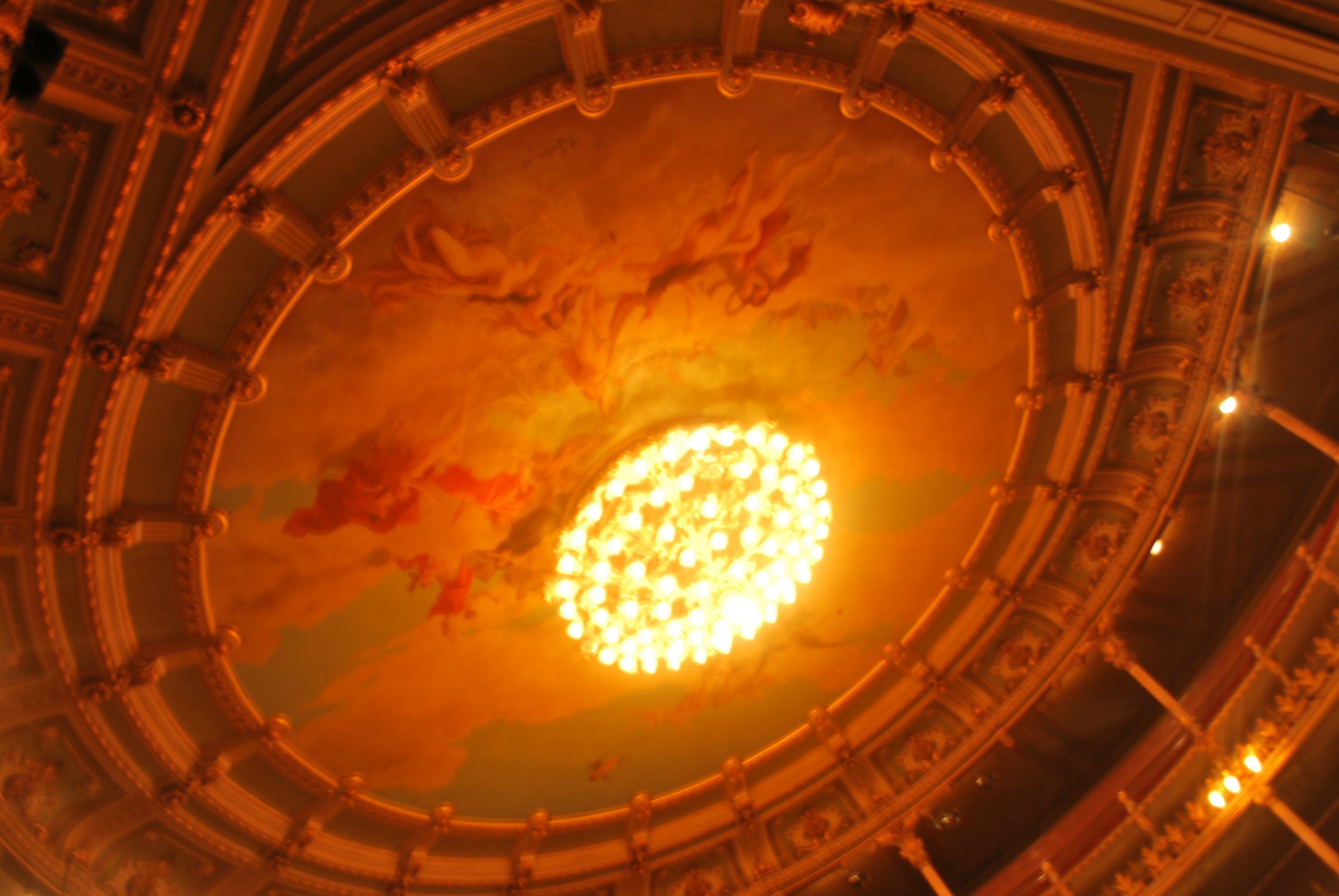 Cupola of the Teatro Nacional in San José, Costa Rica